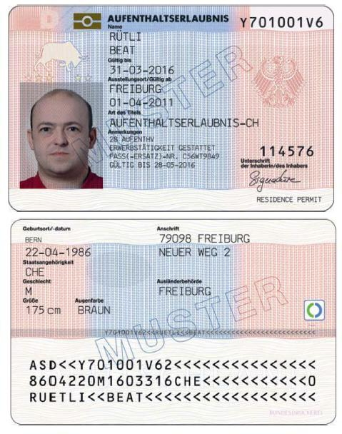 Sample of a residence permit (electronic version) for Swiss Citizens in Germany